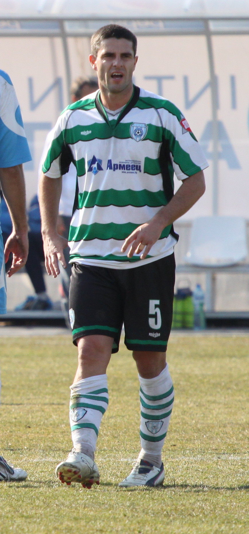 Samuel Camazzola (born August 30, 1982 in Caxias do Sul) is a Brazilian professional football midfielder, who plays for Cherno More